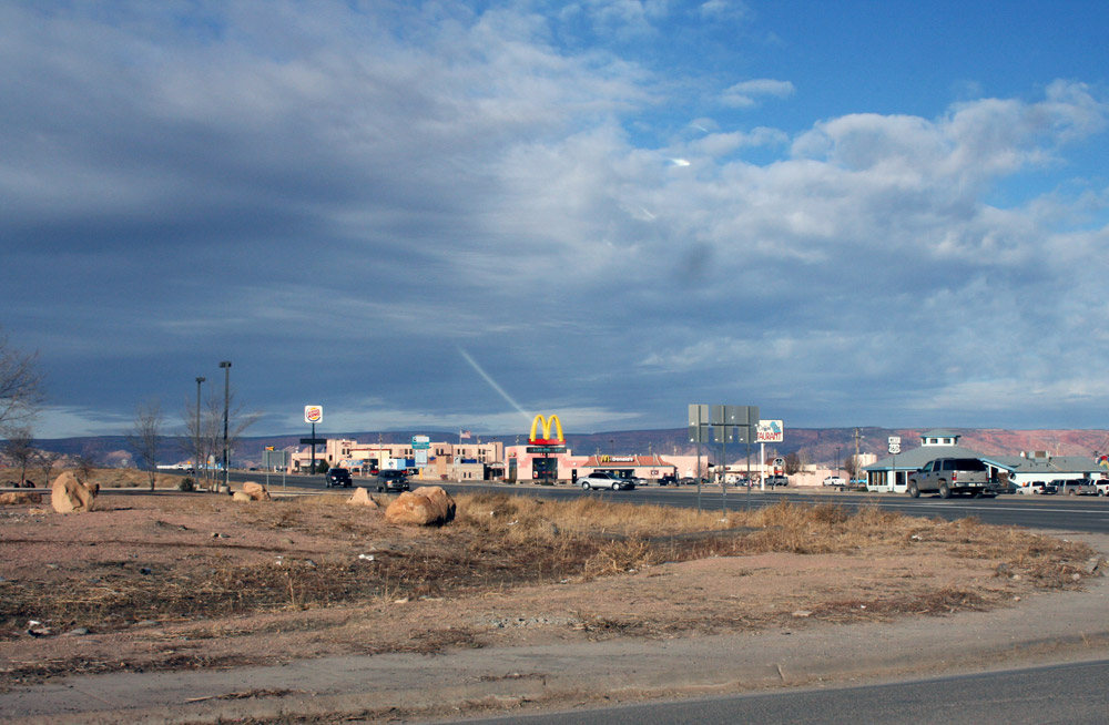 Another Shot of Kayenta, AZ.